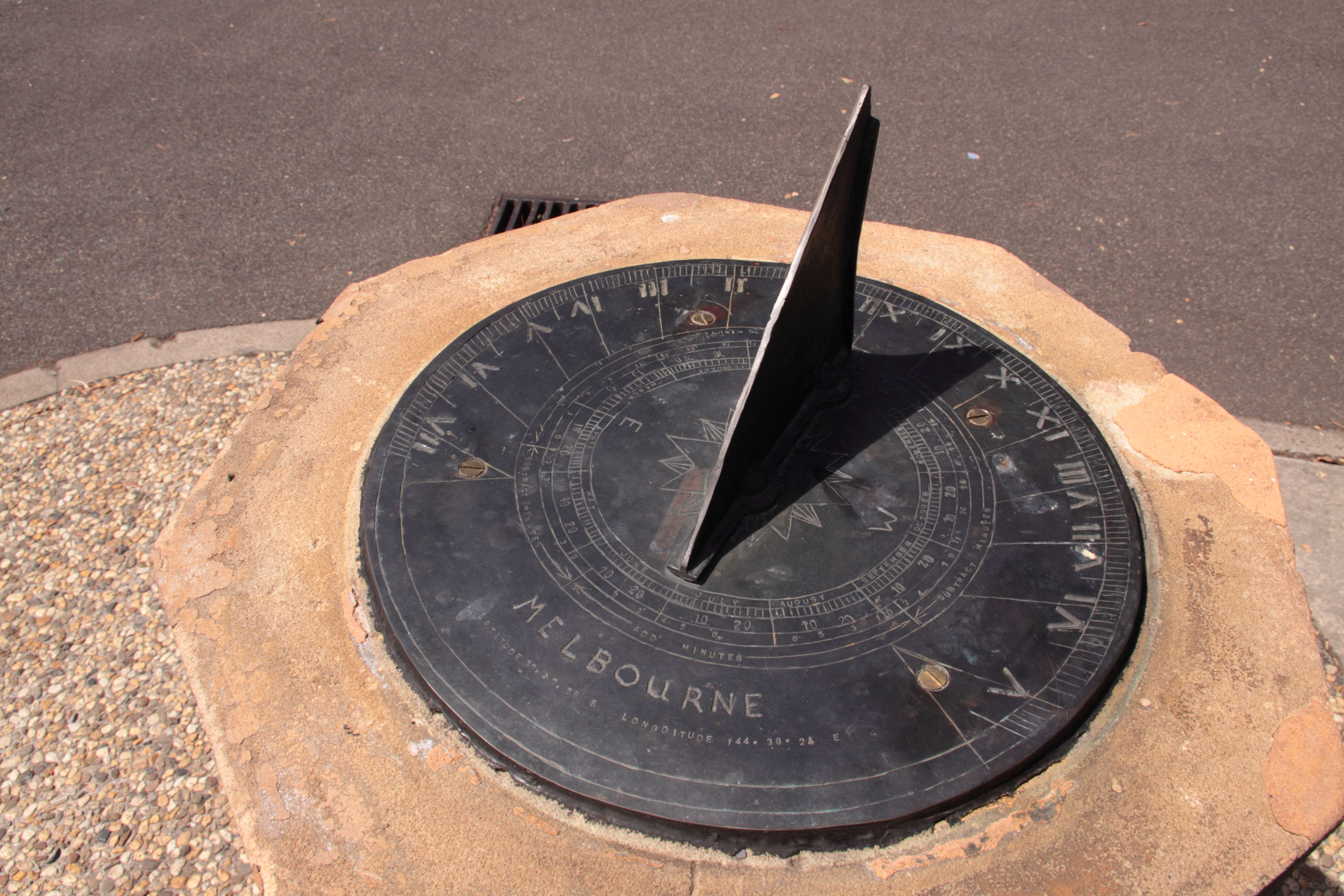 Horizontal Sundial located at Flagstaff Gardens, Melbourne, Australia.